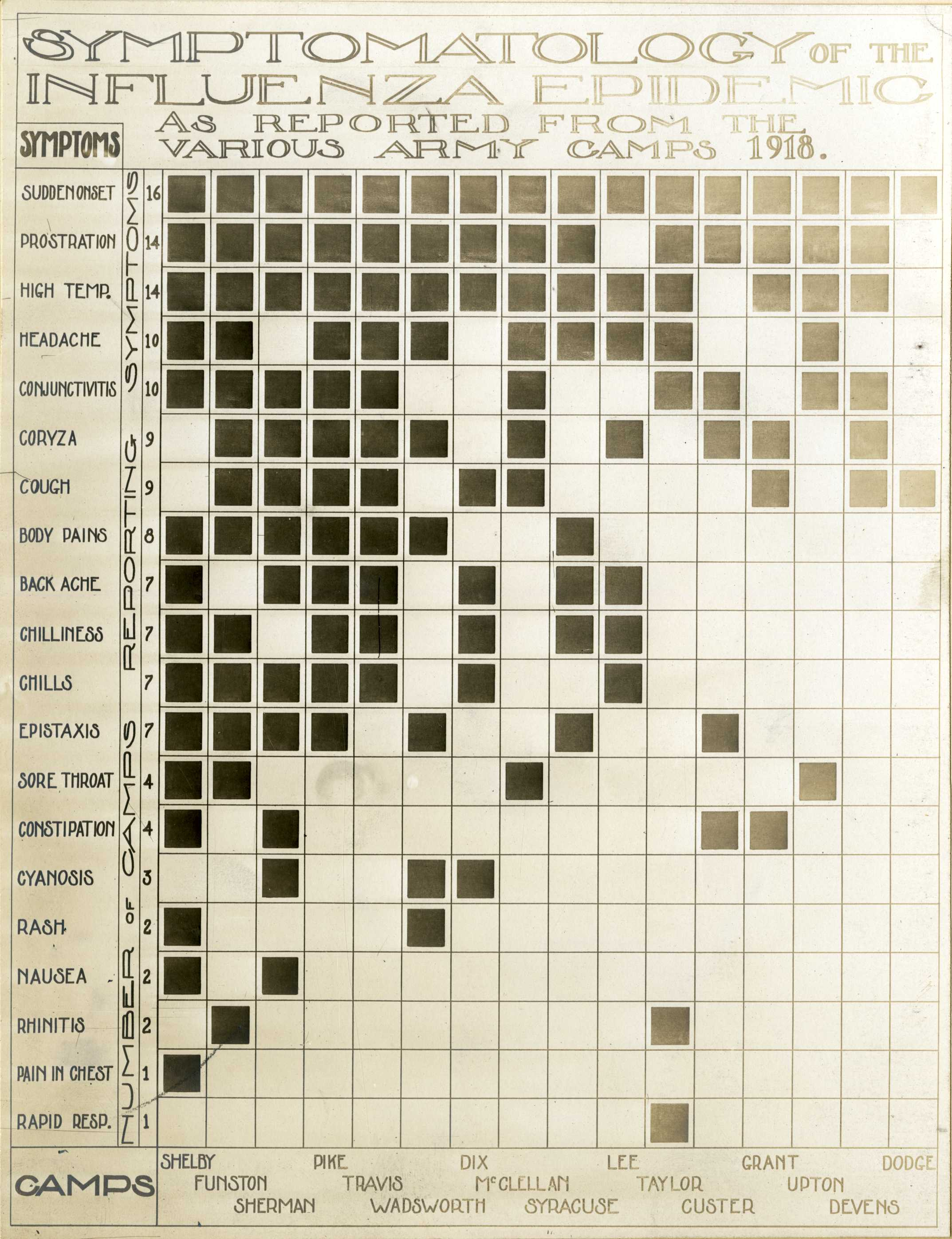 Sanitation. Influenza epidemic 1918. Symptomatology.